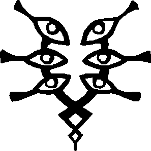 Brand of the Fell Dragon, Grima. Used in the videogame Fire Emblem Awakening to indicate the vessels of the Fell Dragon.